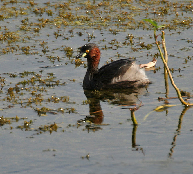 Little Grebe Tachybaptus ruficollis in Hyderabad , India.